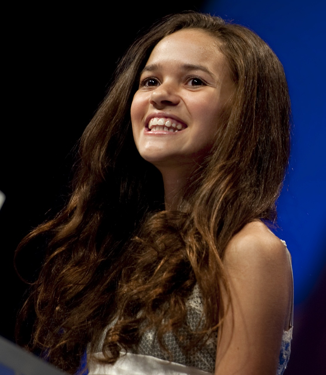 101006-N-0696M-045 Actress Madison Pettis introduces the United Through Reading Program at the USO Gala at the Marriott Wardman Park Hotel in Washington, D.C., Oct. 7, 2010. The program allows service members overseas to read a book to their children aloud while being recorded on DVD. Copies of the book, DVD, instructions are then shipped to the service members children. (DoD Photo by Mass Communication Specialist 1st Class Chad J. McNeeley/Released)